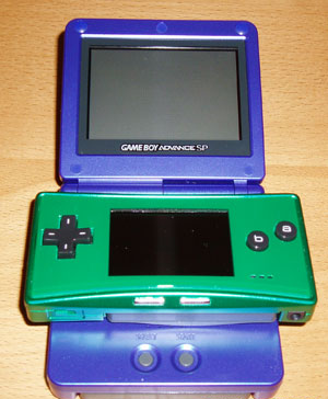 A Game Boy micro in comparison to a Game Boy Advance SP